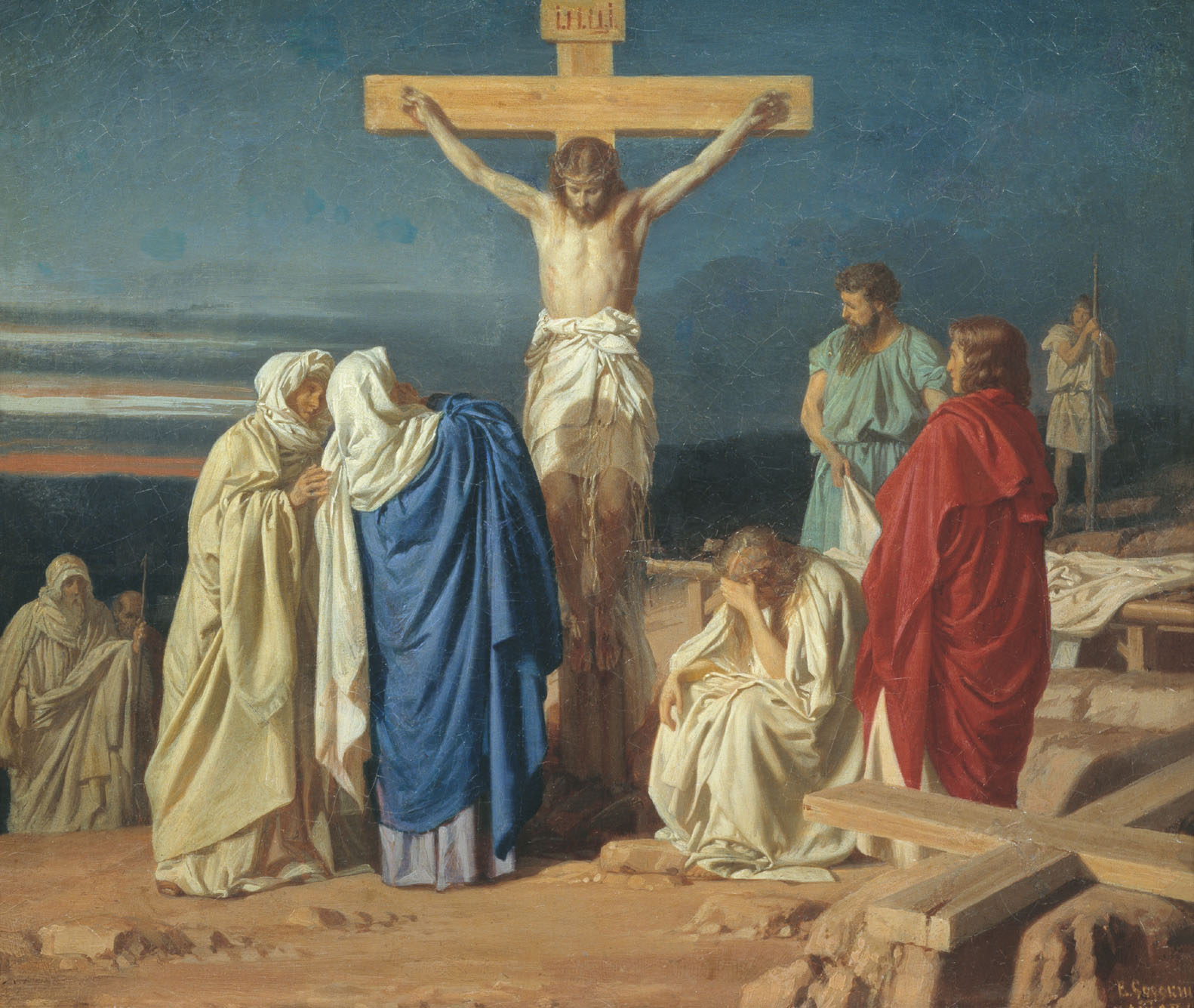 Crucifixion